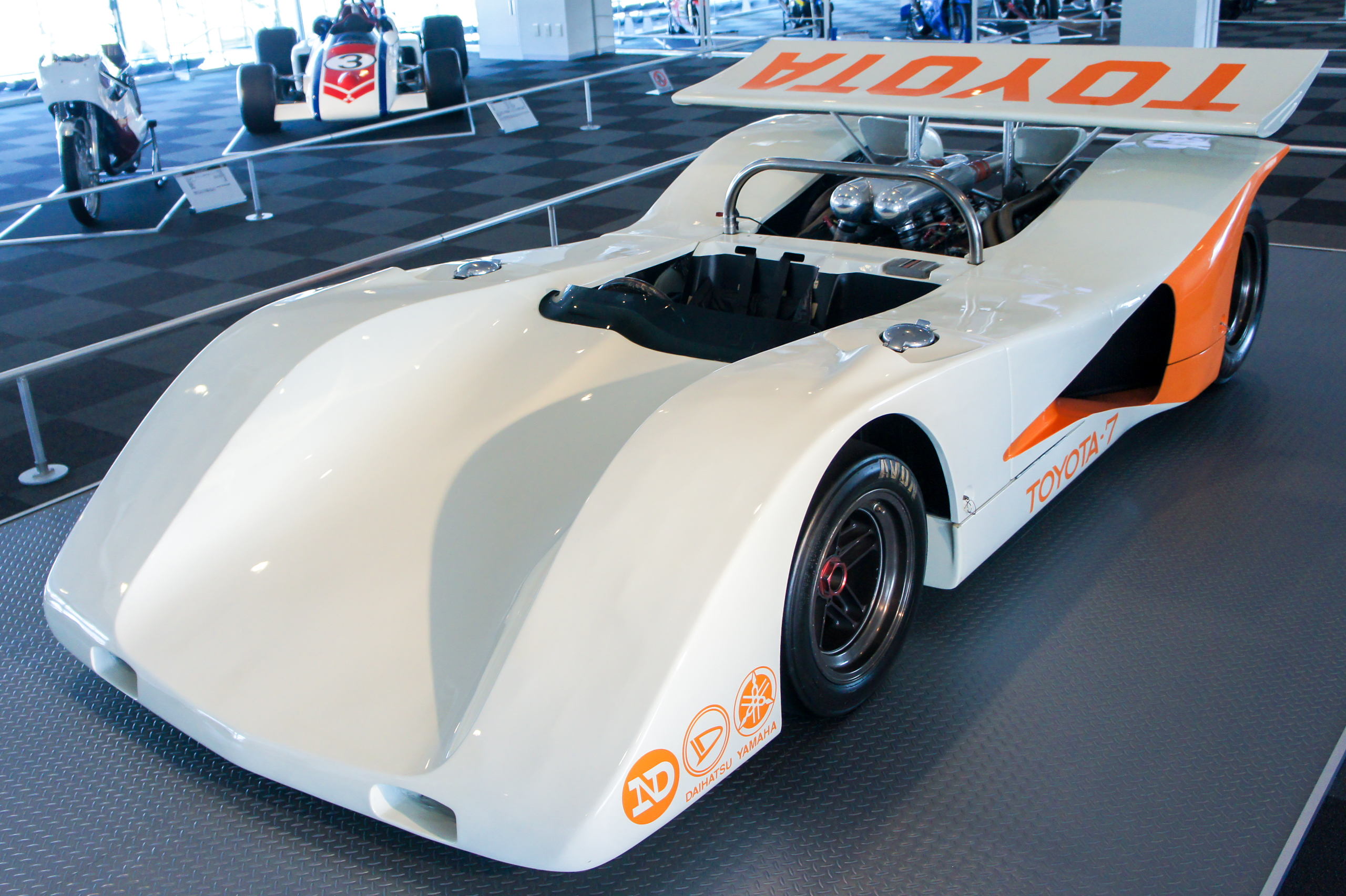 Suzuka Circuit 50th Anniversary "Time Machine Exhibition": 1970 Toyota 7 (turbo version)